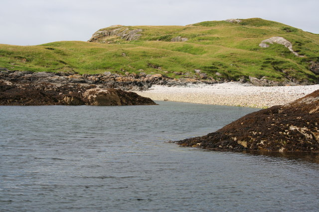 Beach on Eilean Dubh, one of the Summer Isles, on a very wet August day.